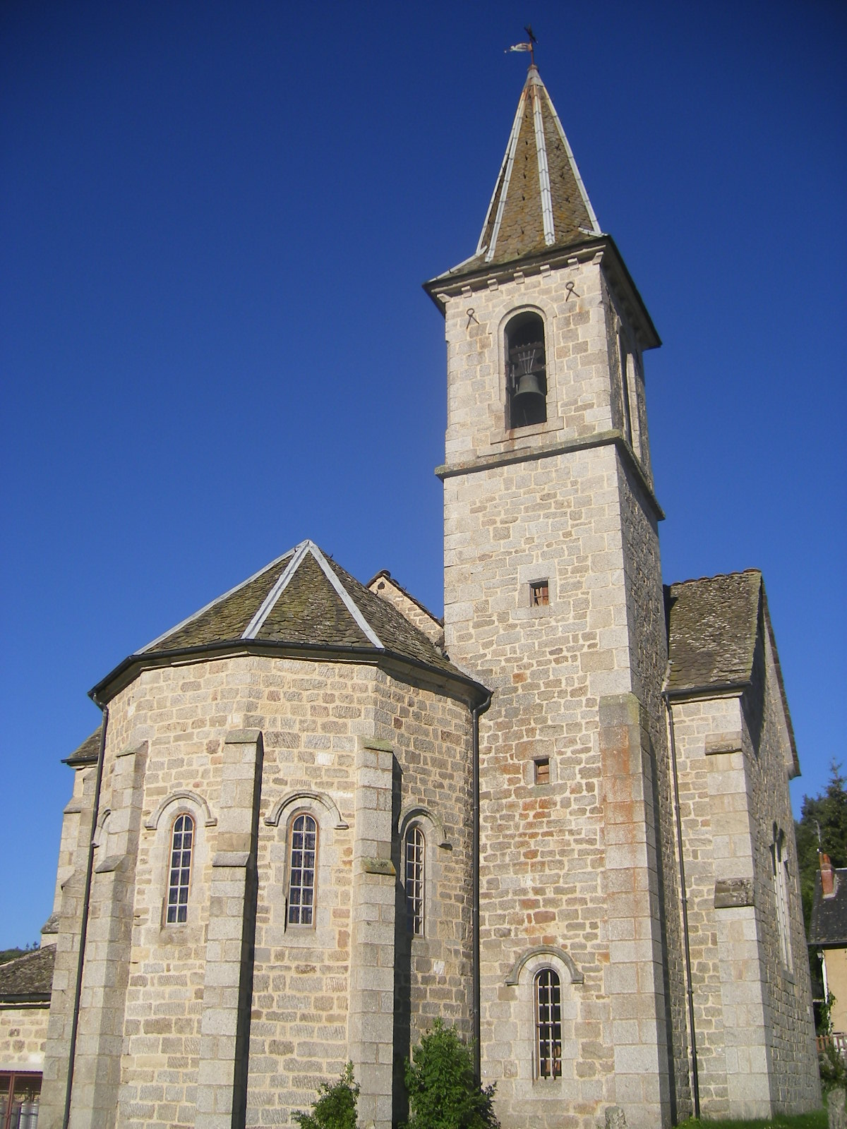 Javols, catholic church